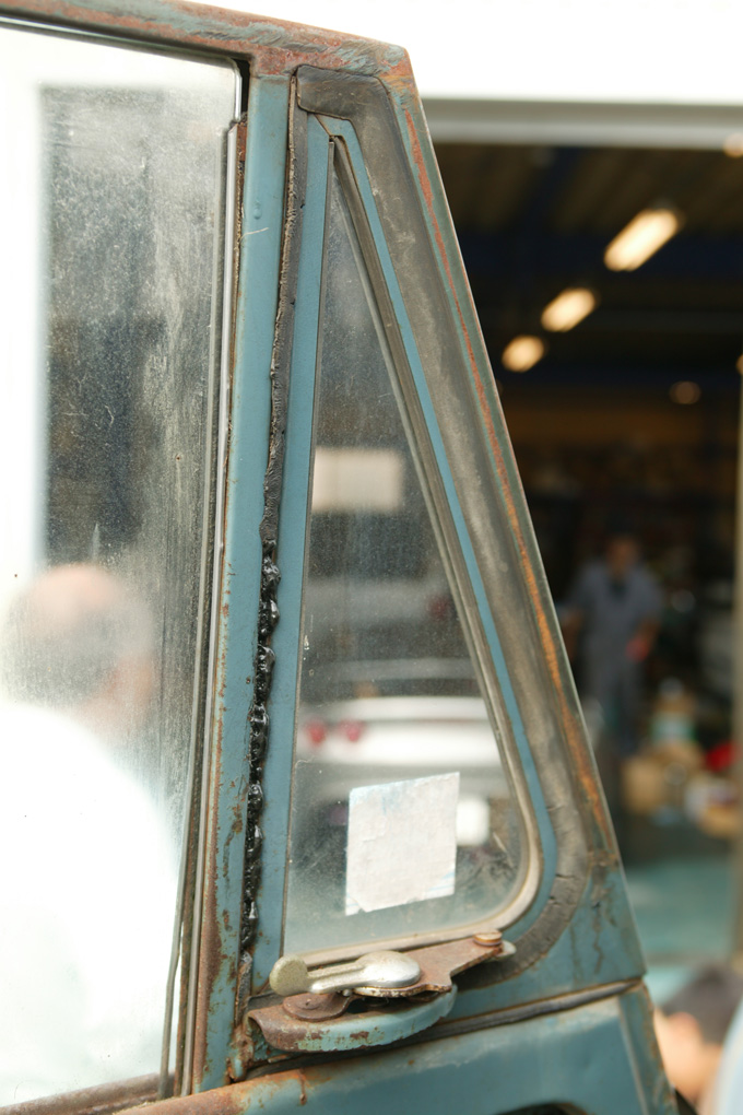 A draft window of Mazda T1500 three wheeler